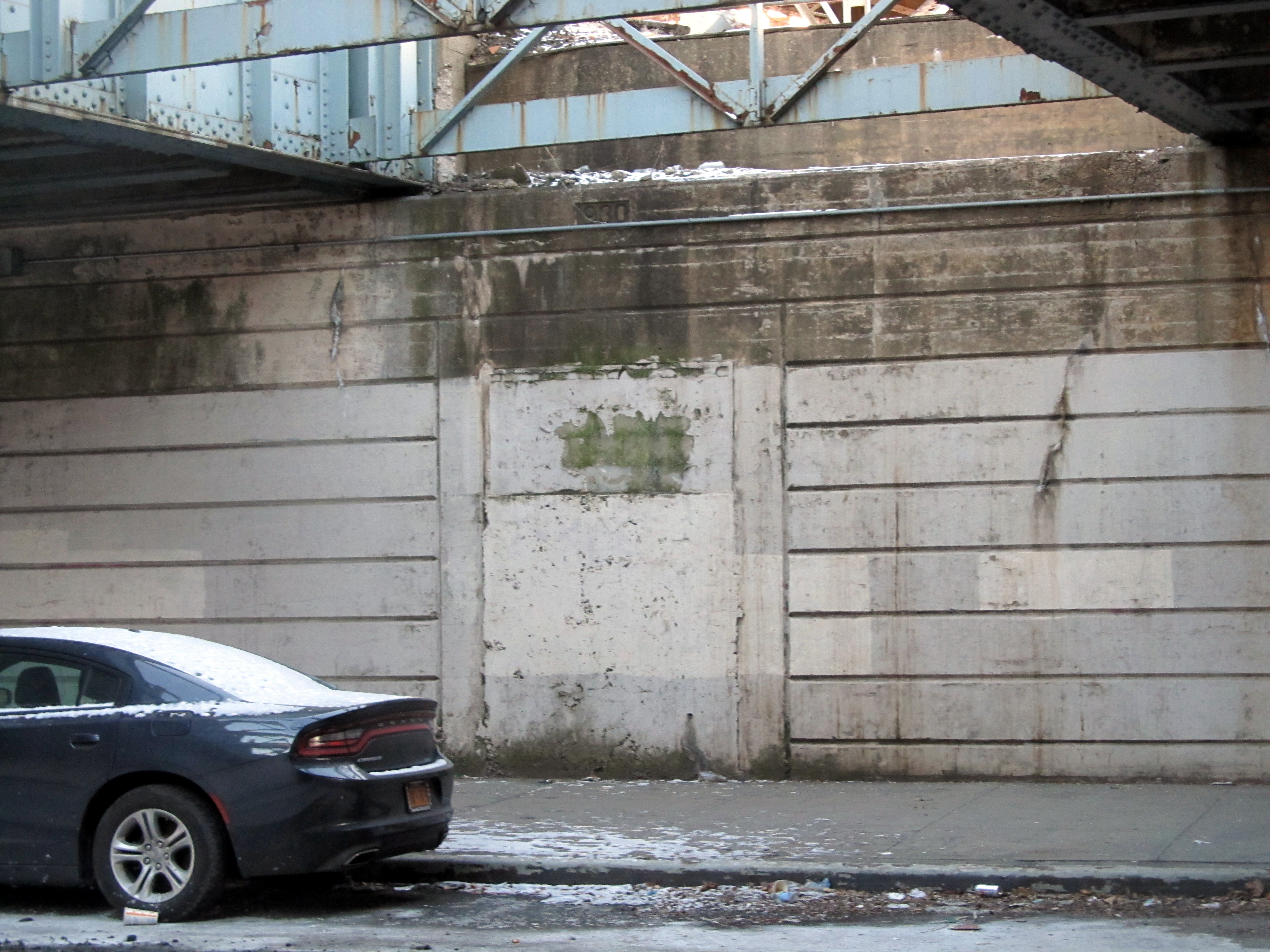 Former staircase from 177th Street to Hillside station in December 2017